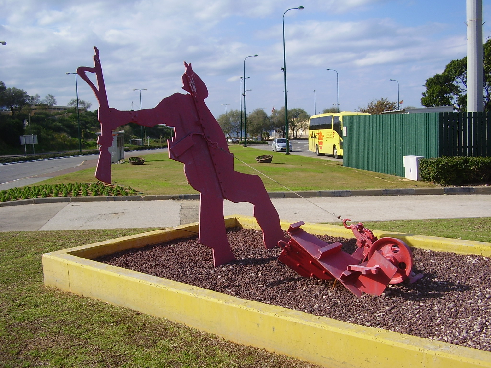 Statue "Freedom is not Free" - Tribute to the Spanish civil war, in Netanya. After the picture " Falling of Loyalist Soldier" by Robert Capa.The sculptor is Igal Tumarkin (2004)